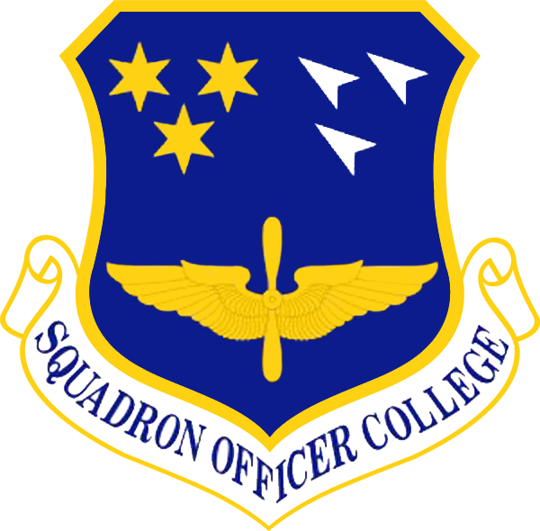 United States Air Force Squadron Officer College emblem. Made with Photoshop.